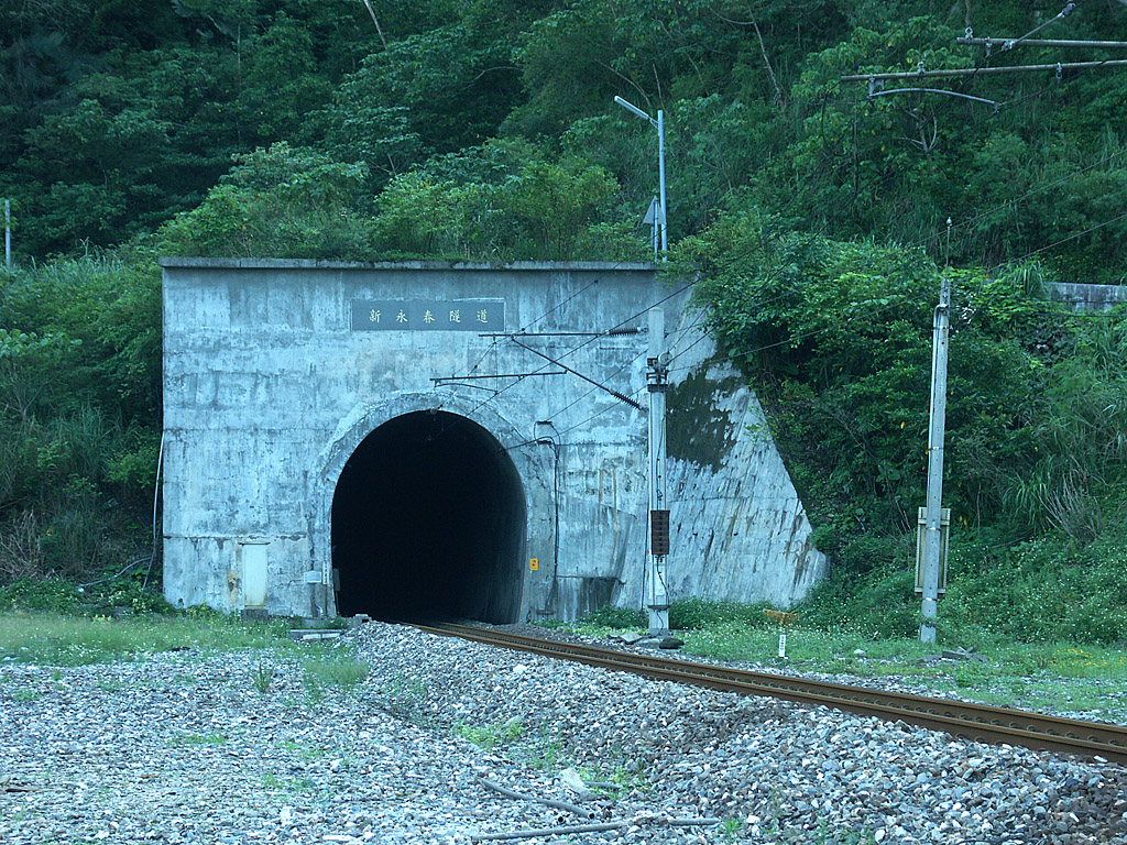 New Yongchun Tunnel, between TRA Yongle and Dongao Station.